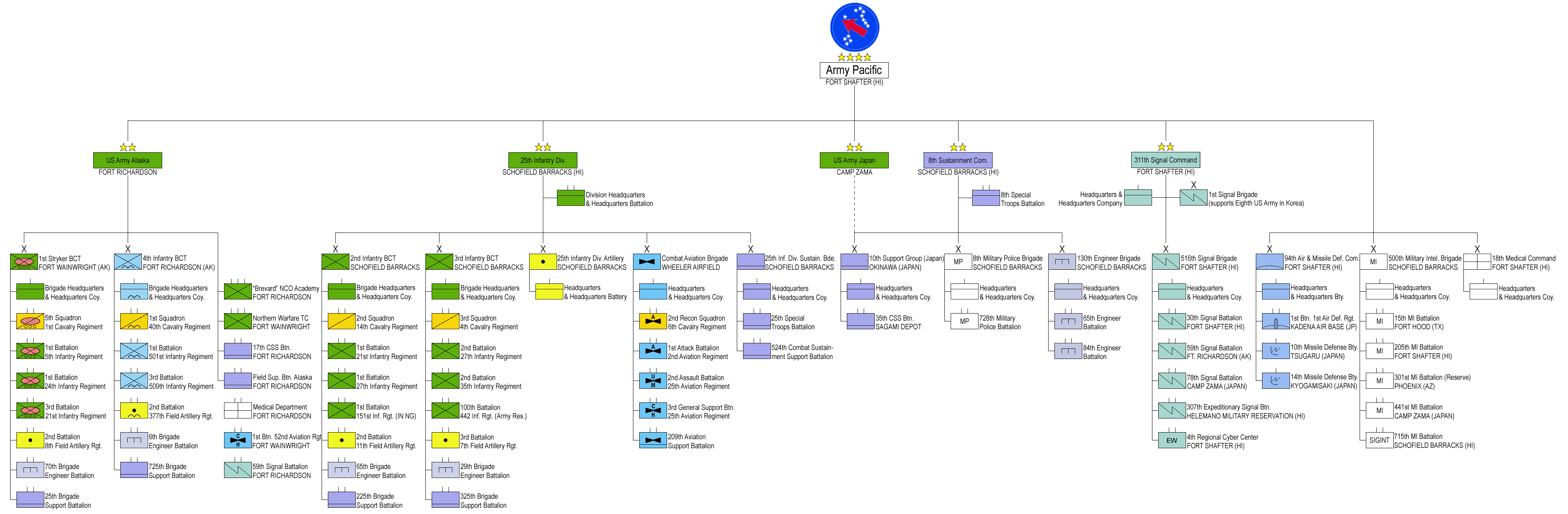 US Army Pacific Structure